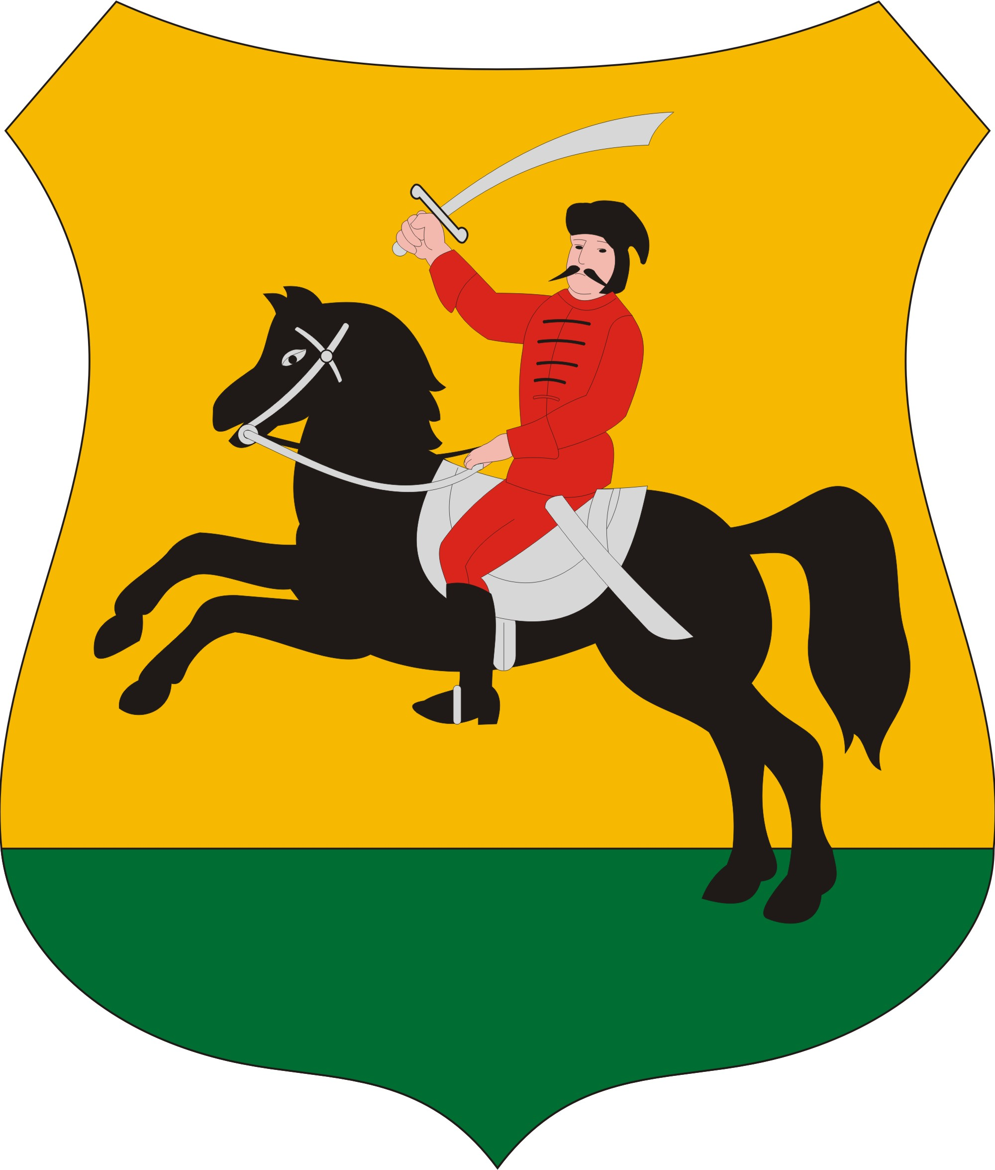 Coat of arms of Majosháza, Hungary